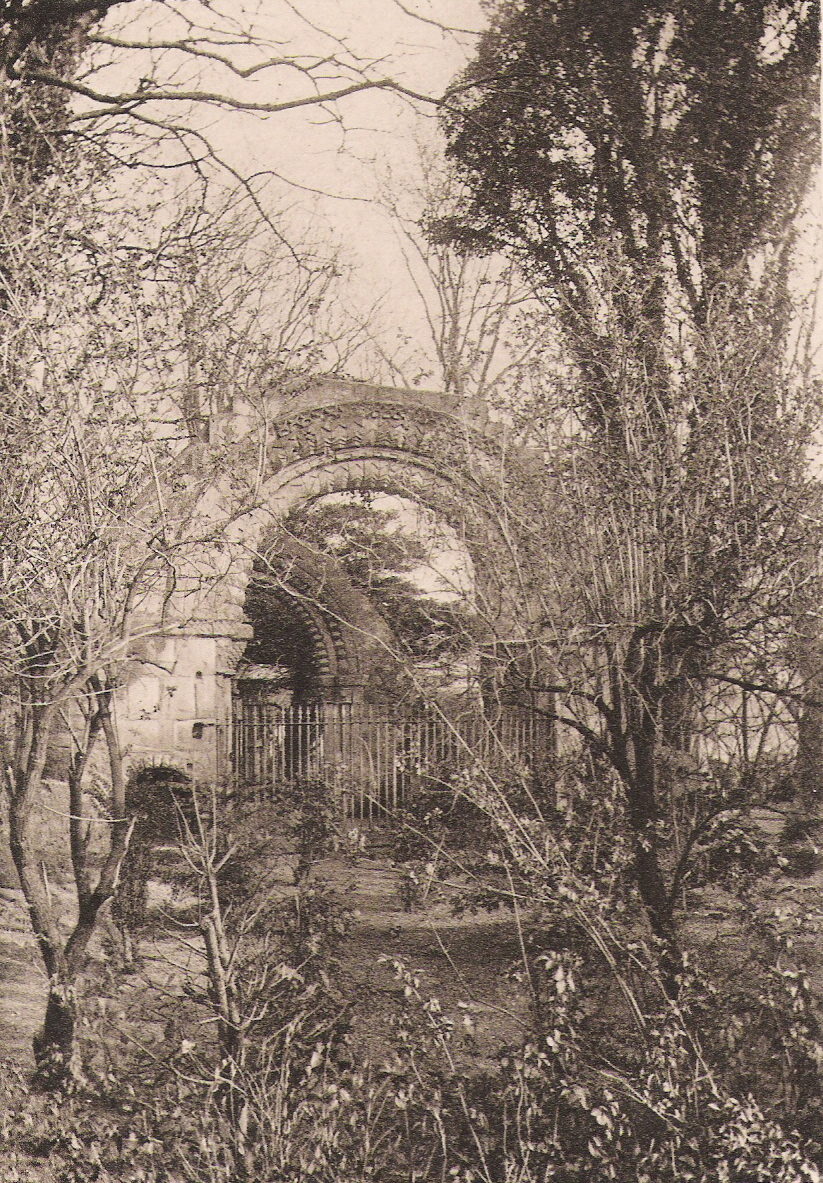 Plate from An Old Kirk Chronicle, Edinburgh, 1893. Out of copyright.